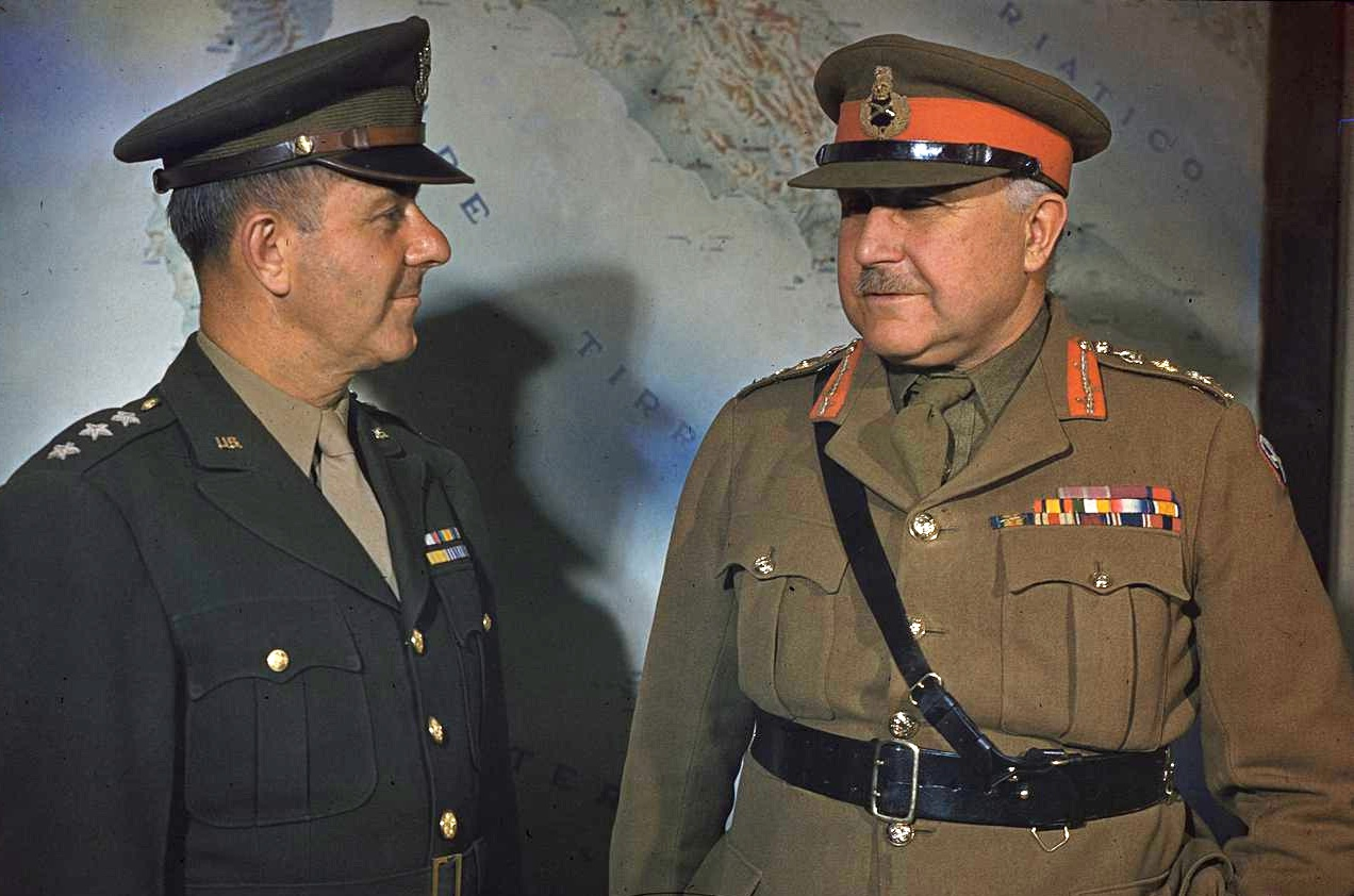 General Sir Henry Maitland Wilson, the Supreme Allied Commander, Mediterranean Theatre, in Italy, 30 April 1944 General Sir Henry Maitland Wilson, Supreme Allied Commander, Mediterranean Theatre, and the Deputy Commander in Chief, Mediterranean Theatre, Lieutenant General J L Devers, standing in front of a map at the main headquarters of the Fifth Army.